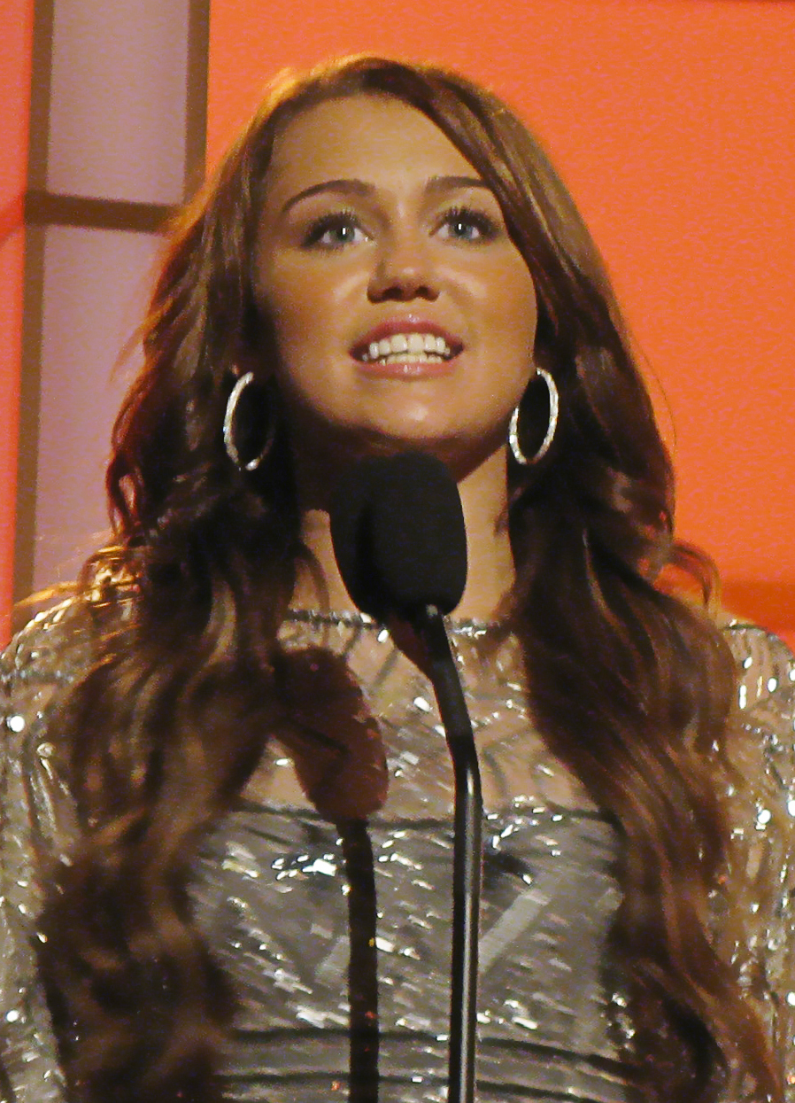 Miley Cyrus on stage at Fashion Rocks 2008